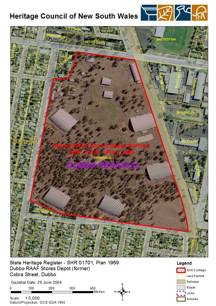 Dubbo RAAF Stores Depot: SHR Plan 1969